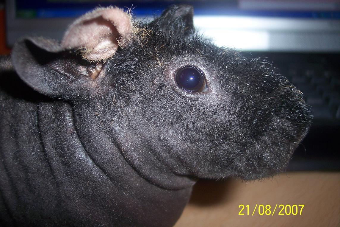 A closeup of the face of a skinny pig